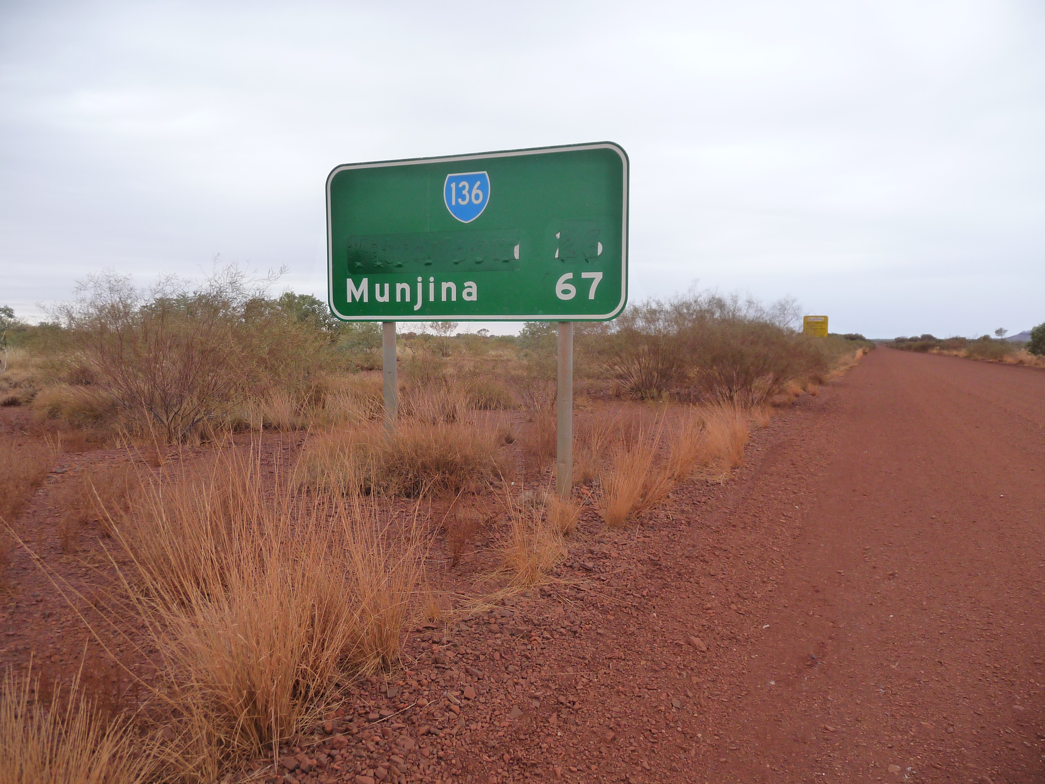 Road sign where Wittenoom, Western Australia has been removed